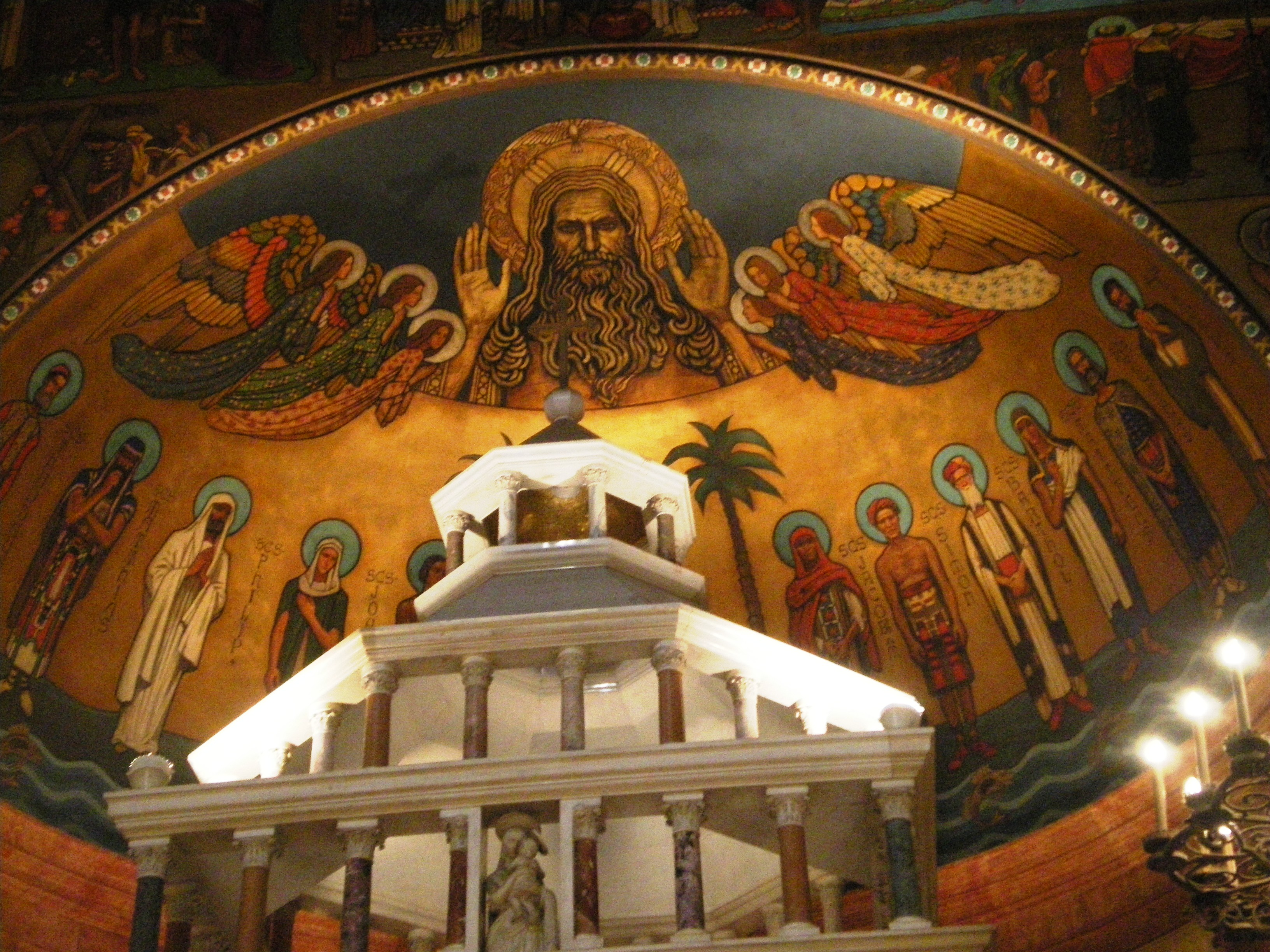 Mural above altar at St. Andrew's Catholic Church, Pasadena, California